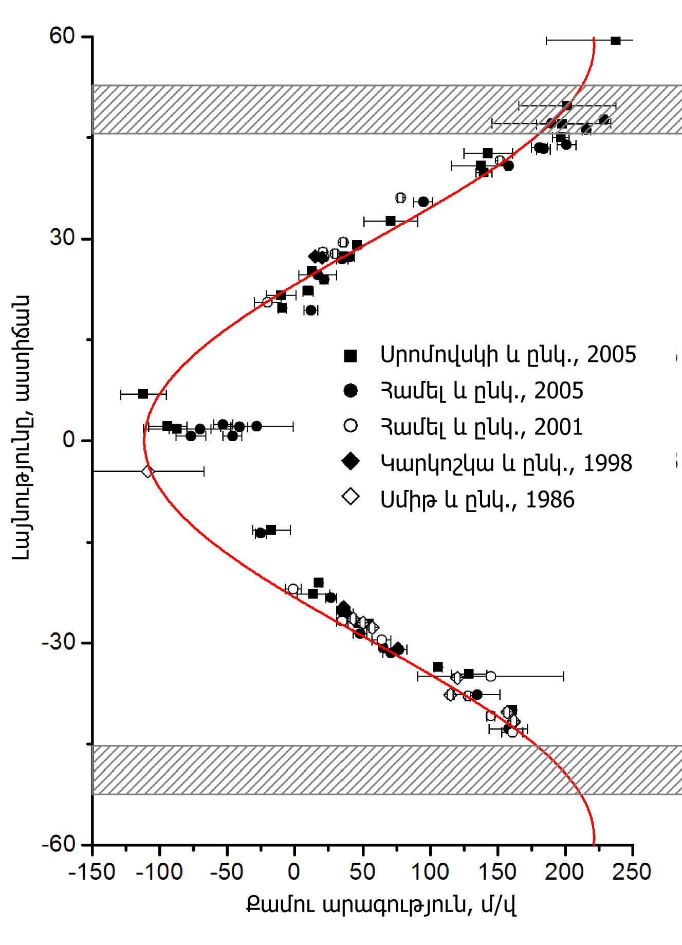 Uranus winds speeds